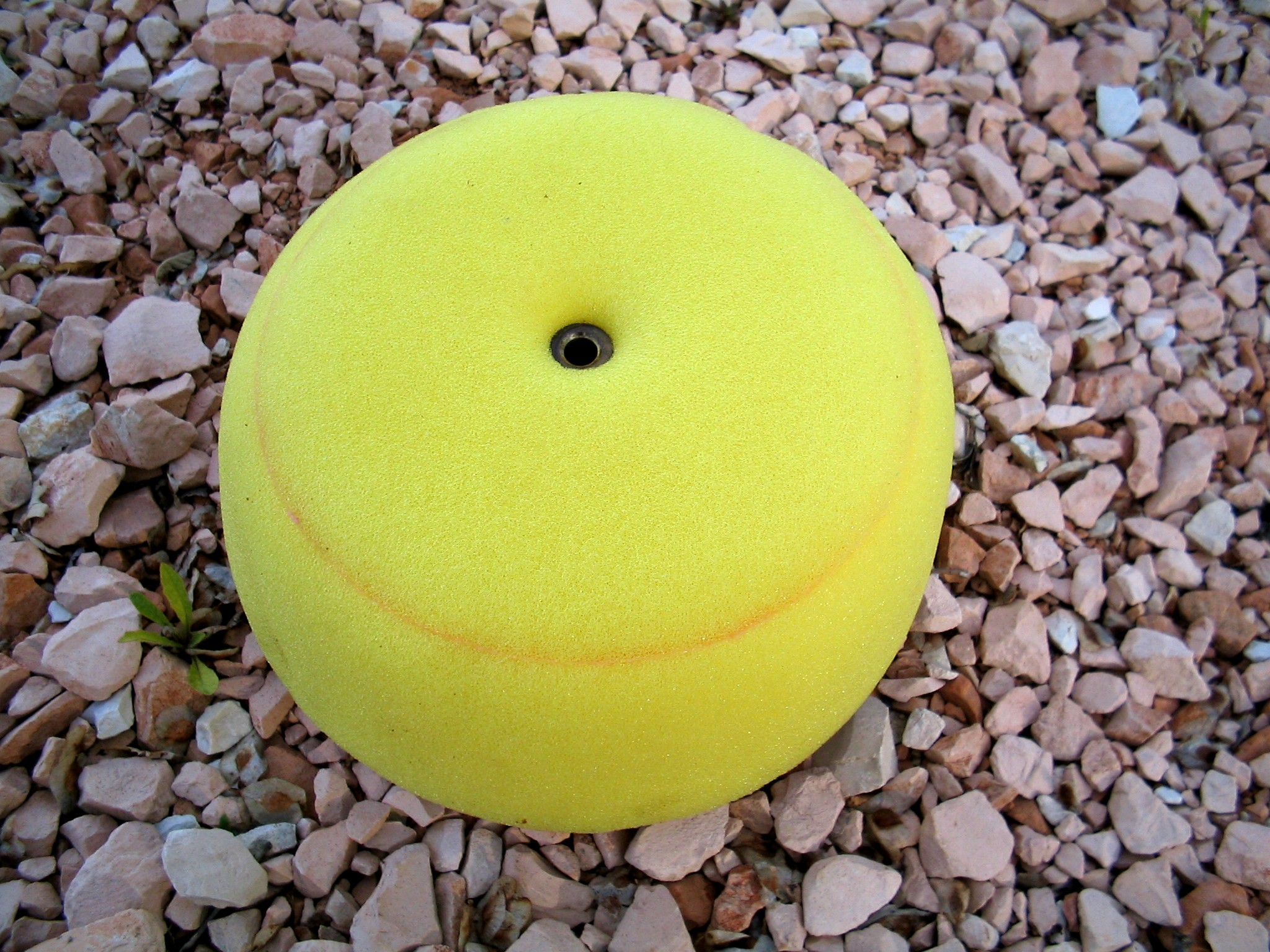 Air filter cup for dirt bikes